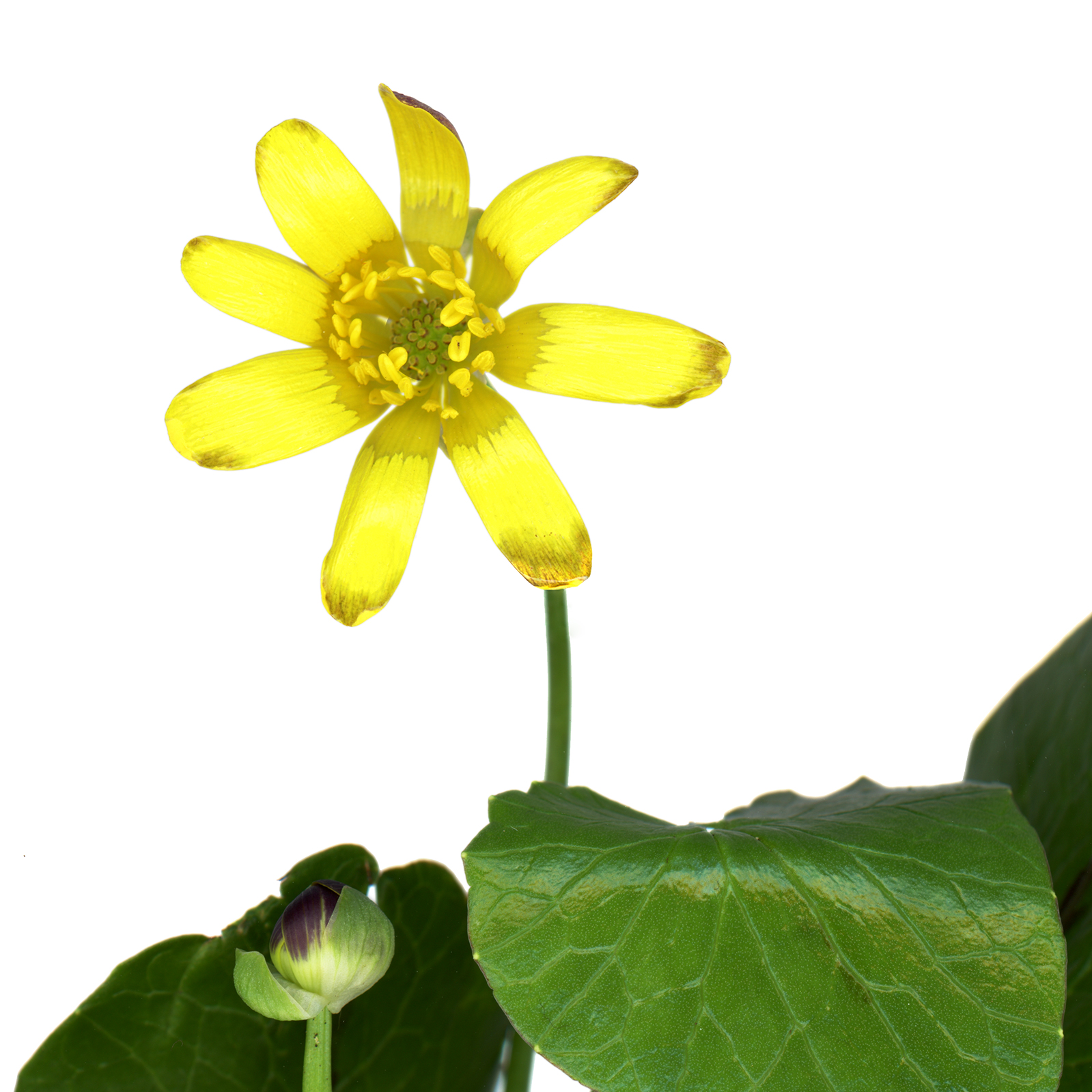 A close up of Ficaria verna